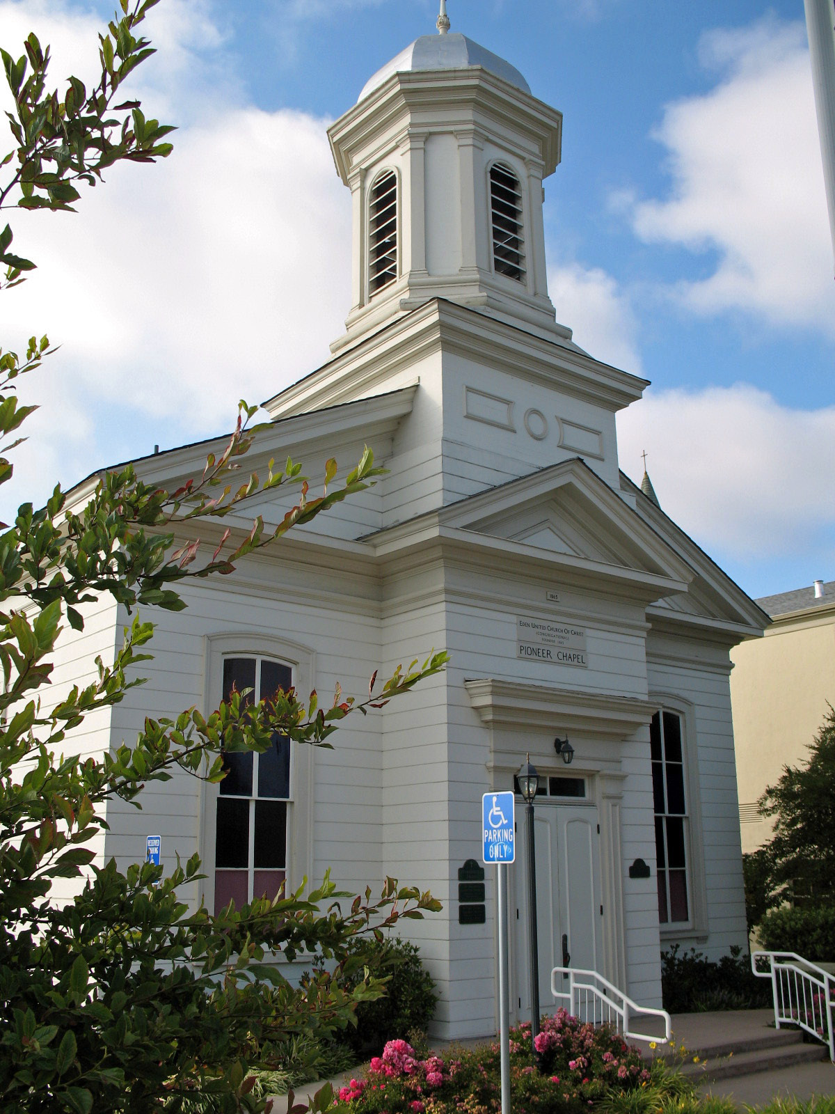 Registered Historic Places in Alameda County, California. Eden Congregational Church, 1046 Grove Way, Hayward, California, USA. Photographed 2008-08-17 from the sidewalk on the north side of Grove Way.